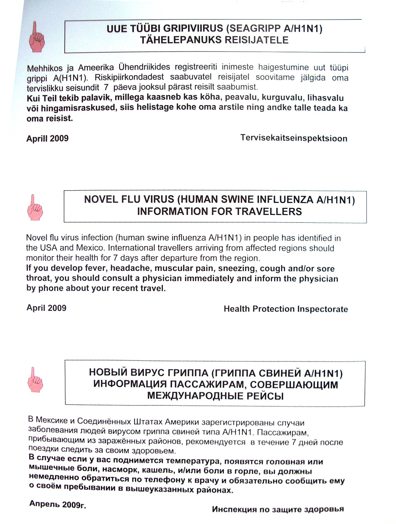 Novel flu virus (human swine influenza A/H1N1) information for travelers by Health Protection Inspectorate in Port of Tallinn.